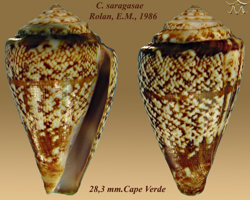 Conus saragasae 3